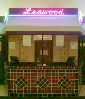 50s Style Movie Box Office (Created the weekend of the release of the Dark Knight.)